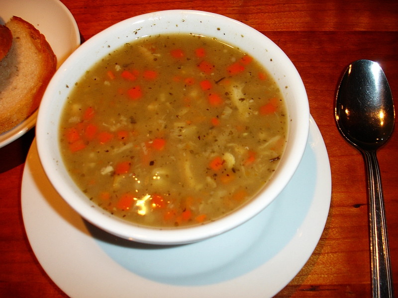 Flaki